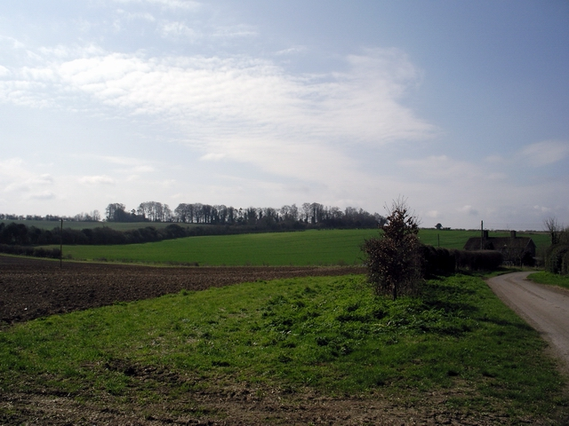 Hunton Down Lane and Norsebury Ring Hunton Down Lane cuts across the north west corner of the square. Here we're looking south to houses at Hunton Grange Farm. Behind the trees on the horizon is Norsebury Ring iron age hill fort, which is not accessible to the public.